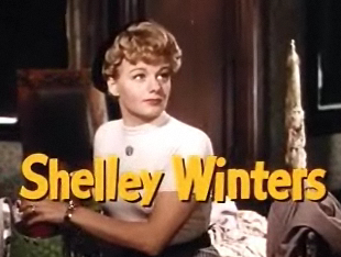 Screenshot of Shelley Winters from the trailer for the film Tennessee Champ